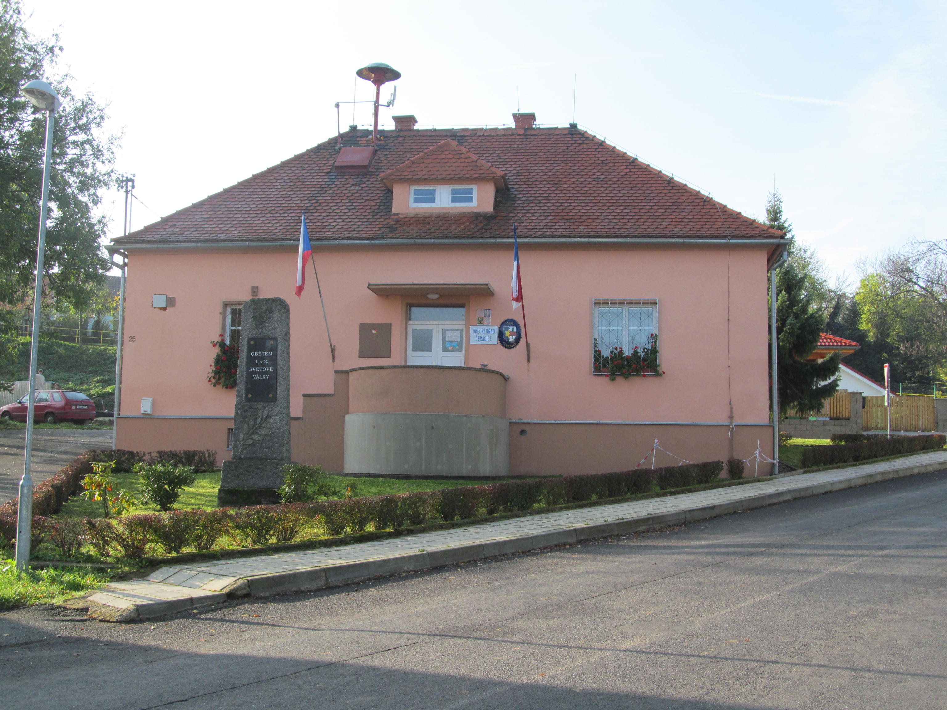 Lokal office in Čeradice